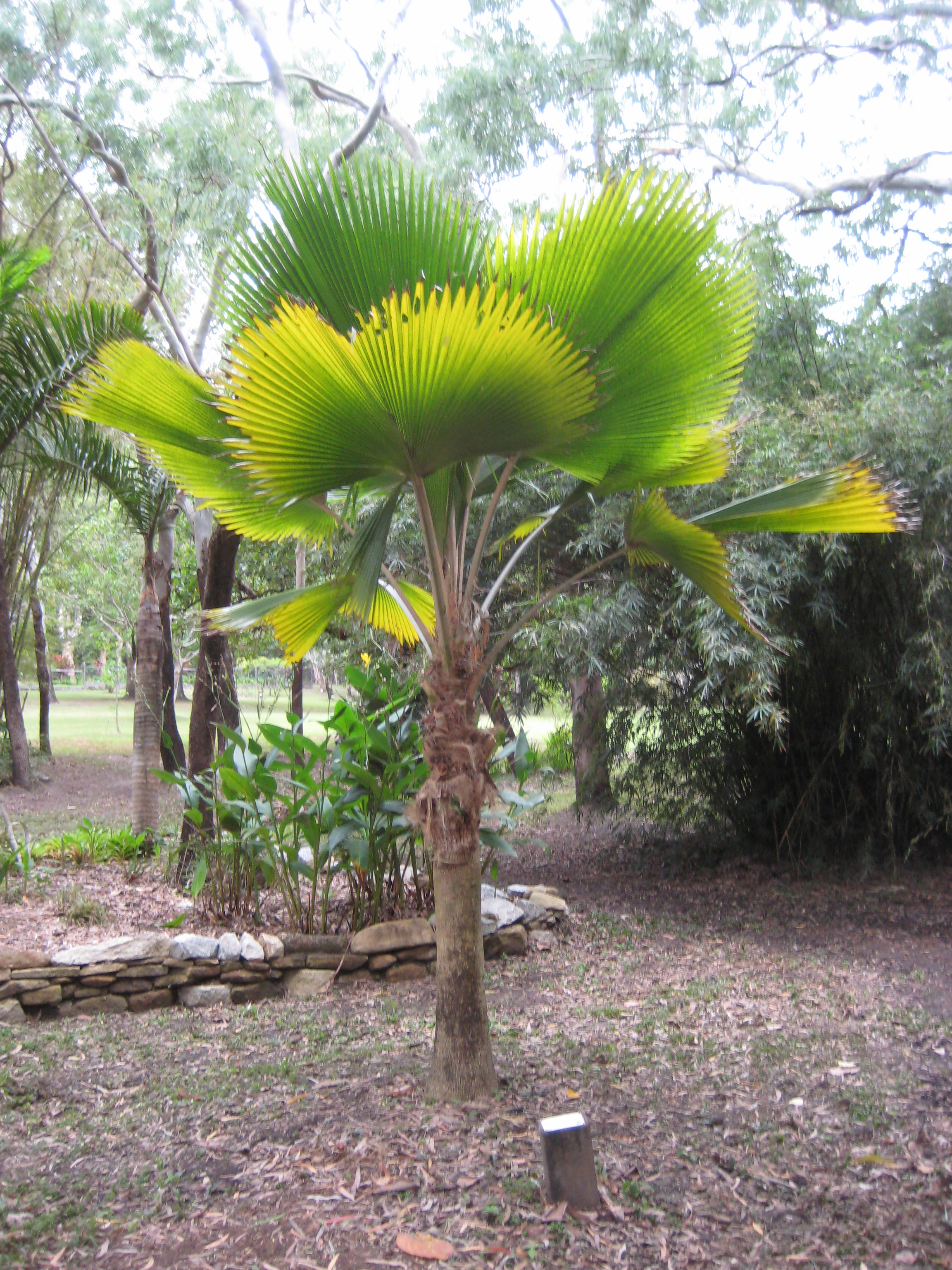 Fiji Fan Palm